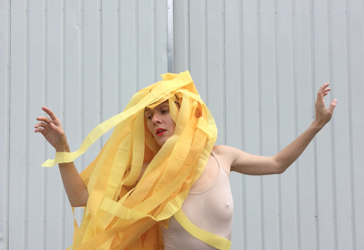 Katharina Stenbeck performing in Ojai 2018